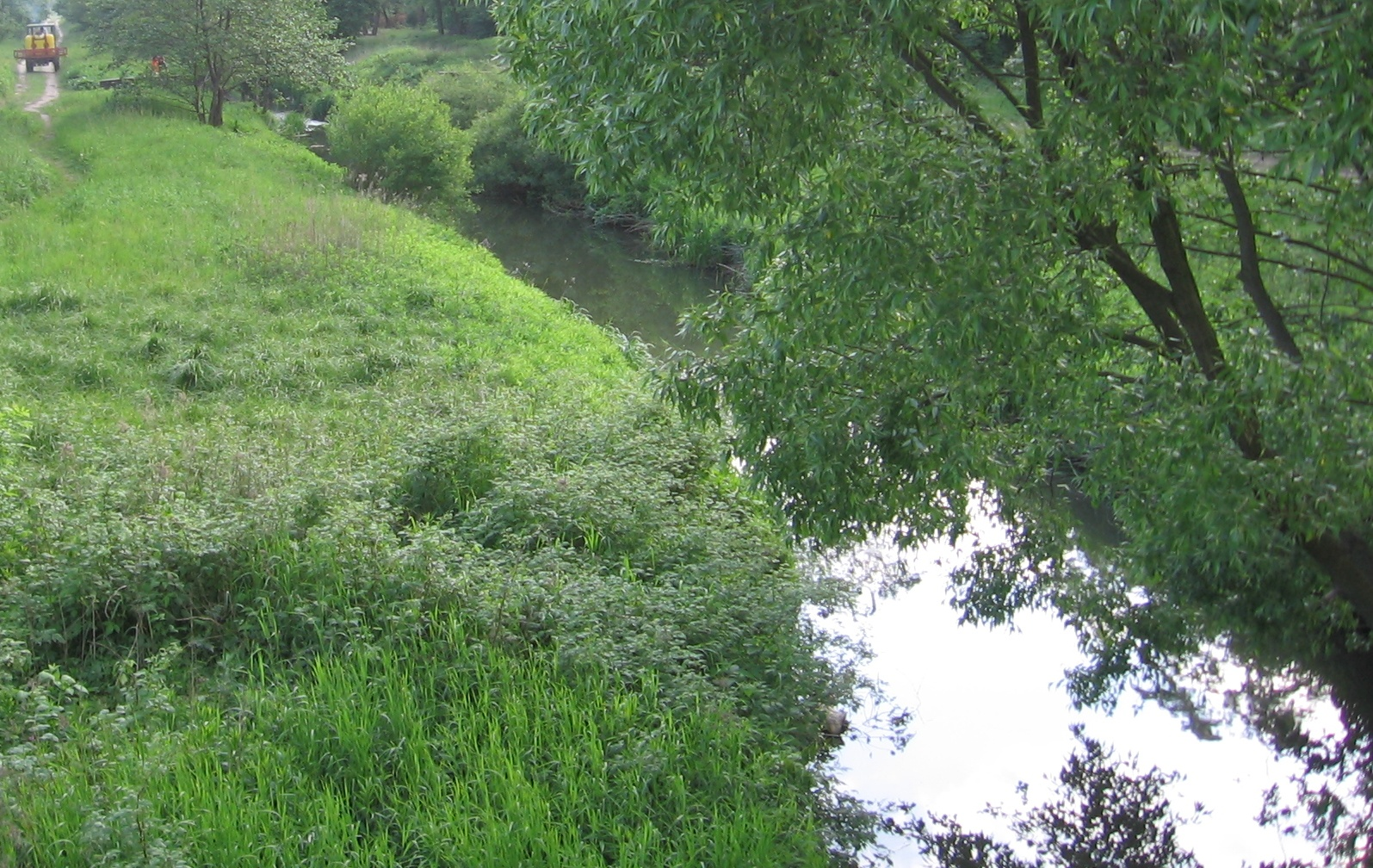 Dobra River (tributary of Odra River) near Zakrzowski Bridge Wrocław, Poland